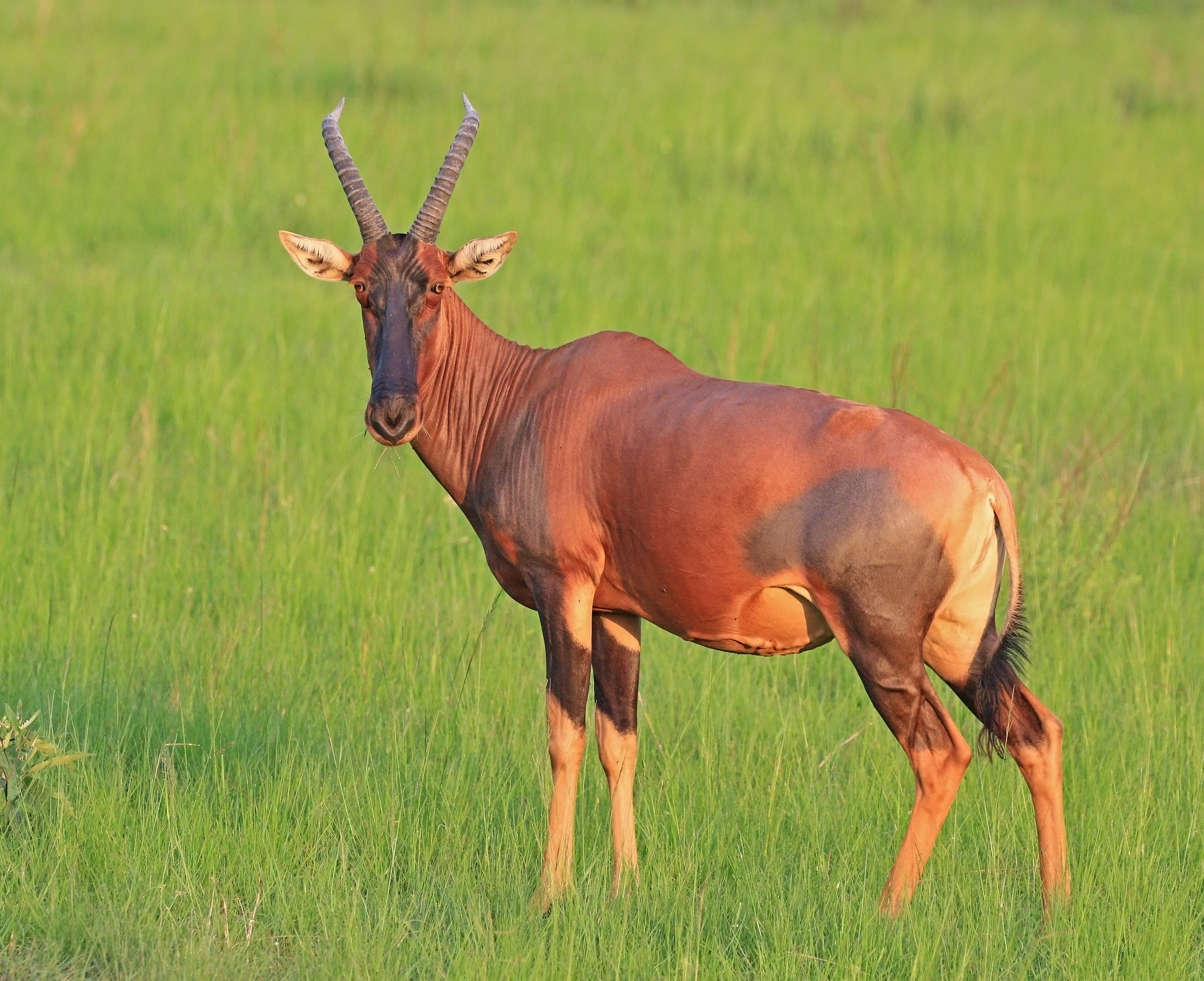 Topi (Damaliscus lunatus jimela), female, Queen Elizabeth National Park, Uganda